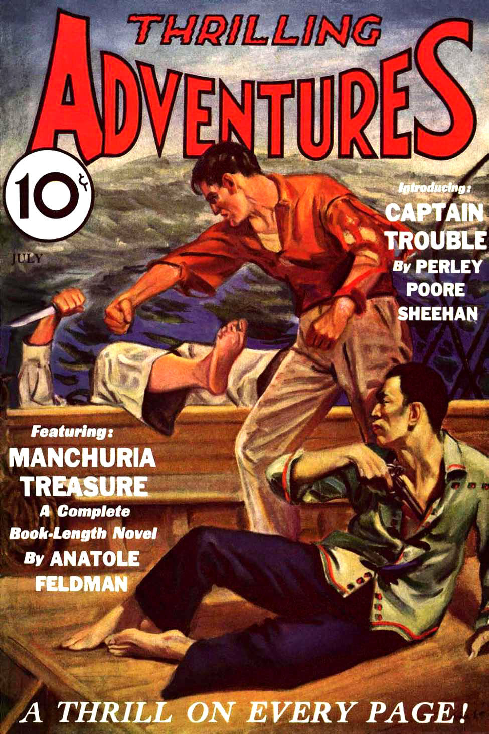 Cover to Thilling Adventures, volume 2, number 3 (Metropolitan Magazines, July 1932).